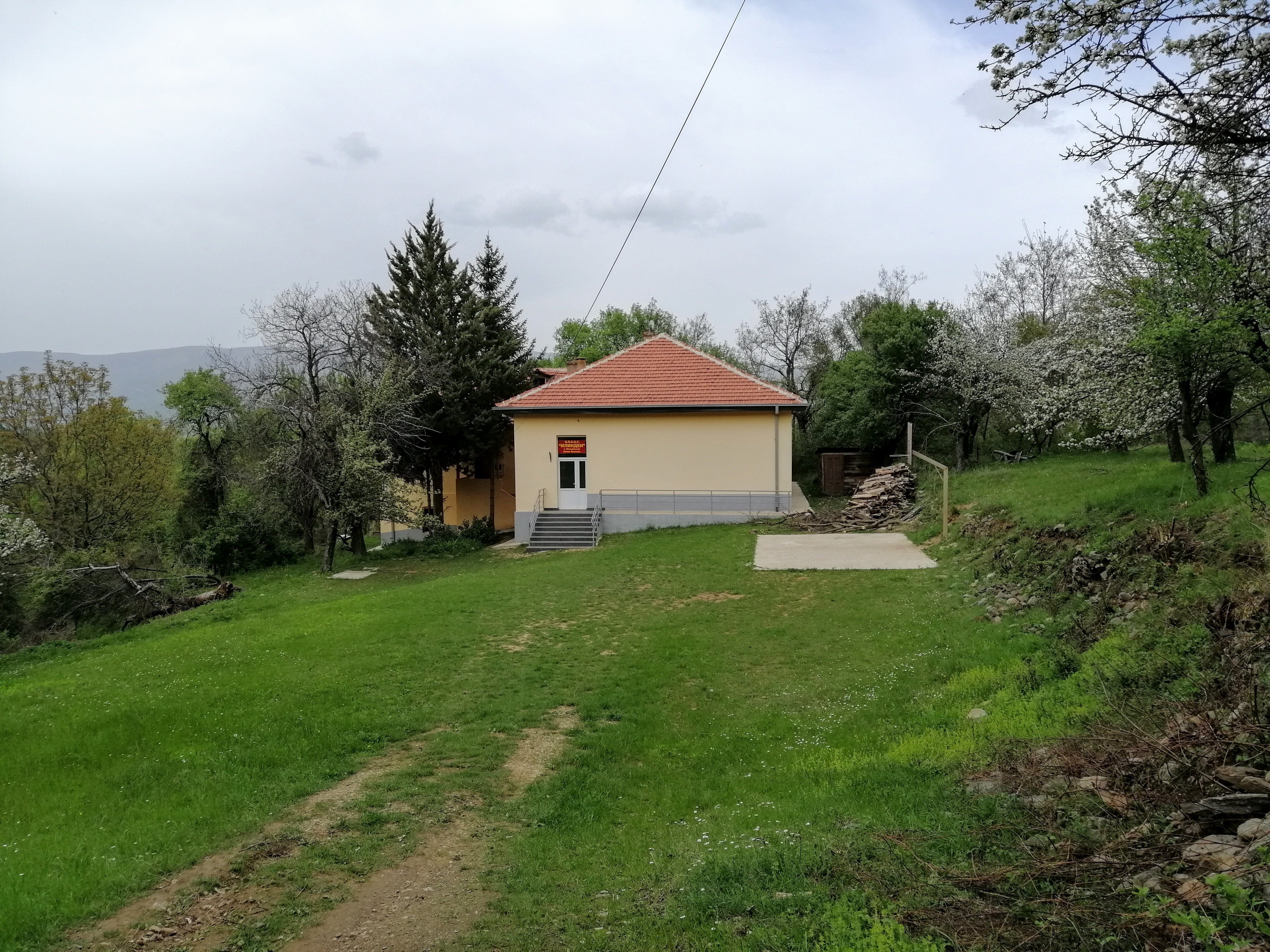 Primary school in the village Moždivnjak